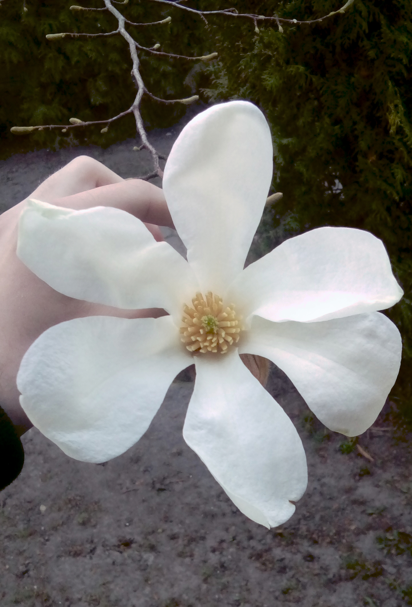 Magnolia kobus flower in full bloom.